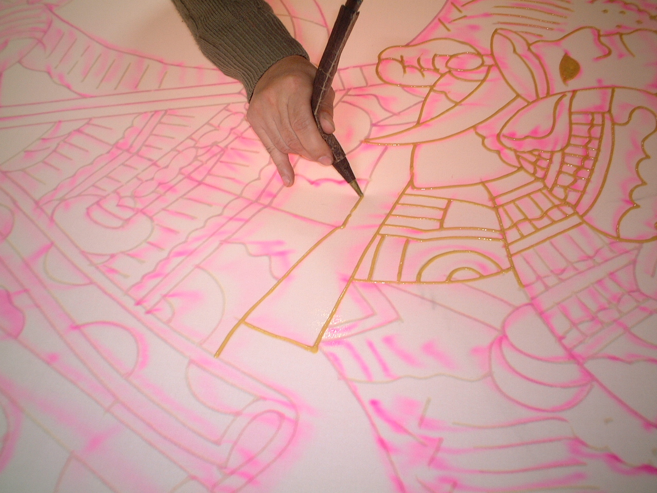 筒描き手染め武者絵のぼり 裏筒描き Japanese TSUTSUGAKI Worriors Nobori